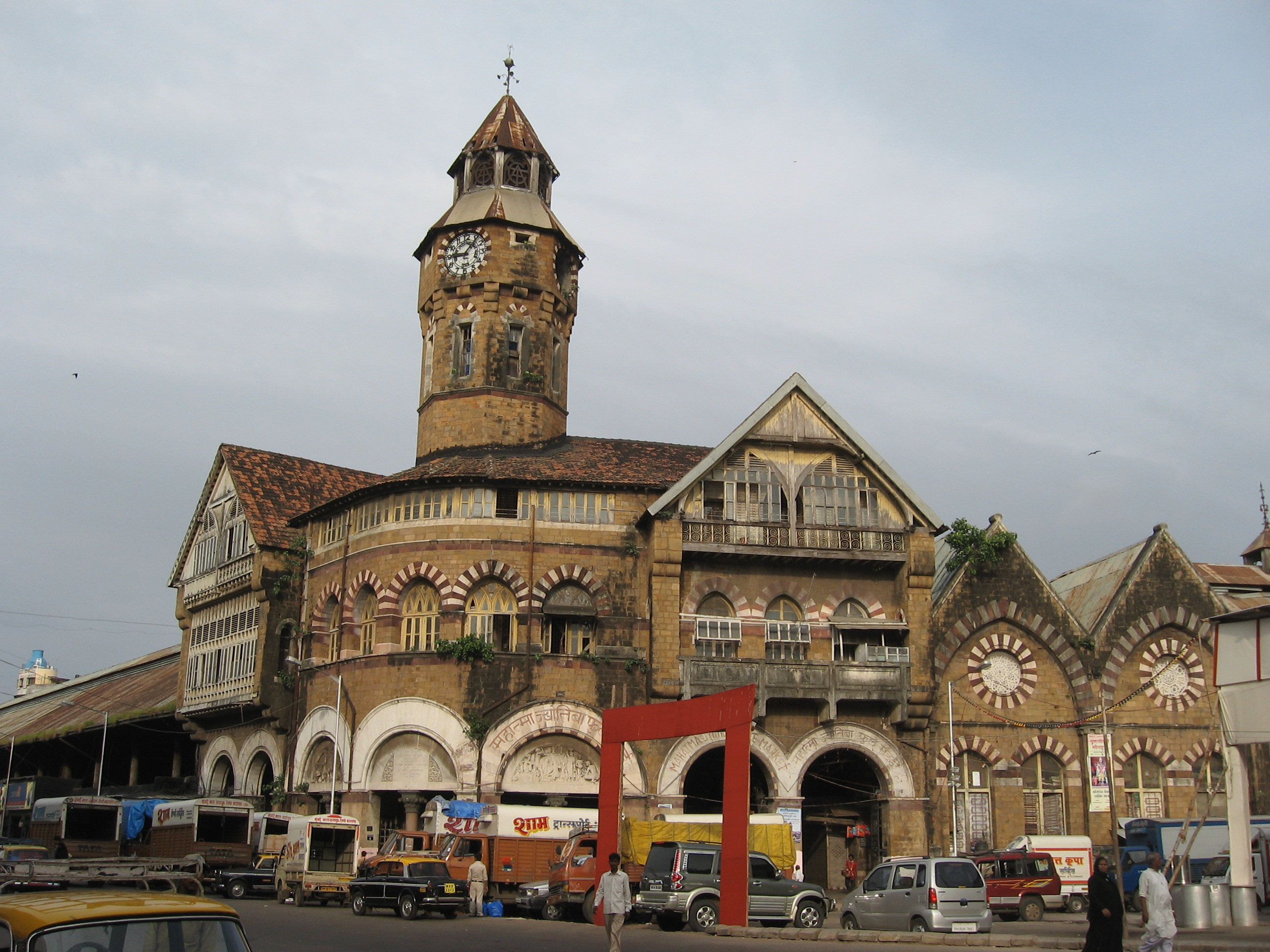 Crawford Market, a famous market in Mumbai, built by Arthur Crawford